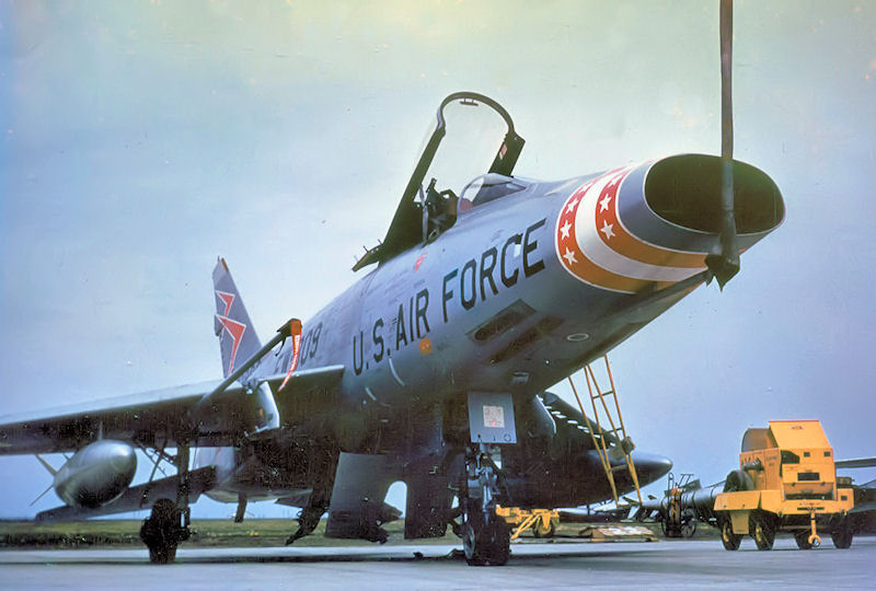 531st Tactical Fighter Squadron - North American F-100D-30-NA Super Sabre - 55-3809